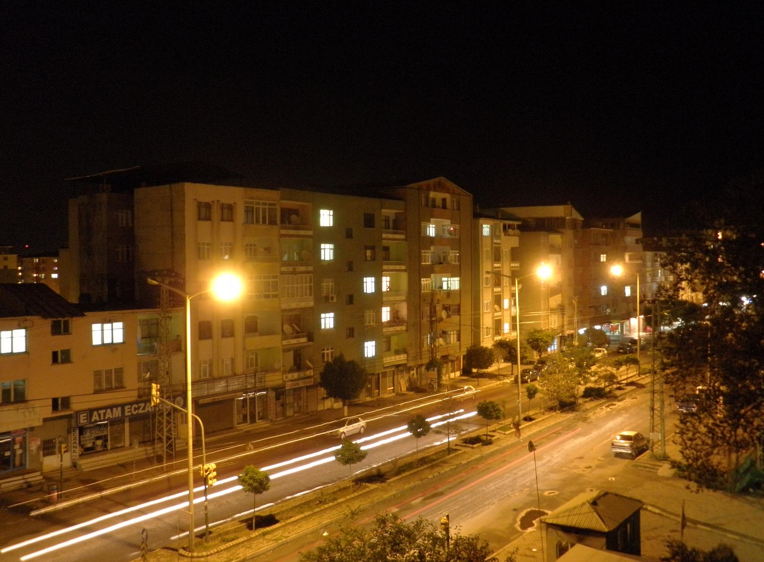 Iğdır city at night landscape